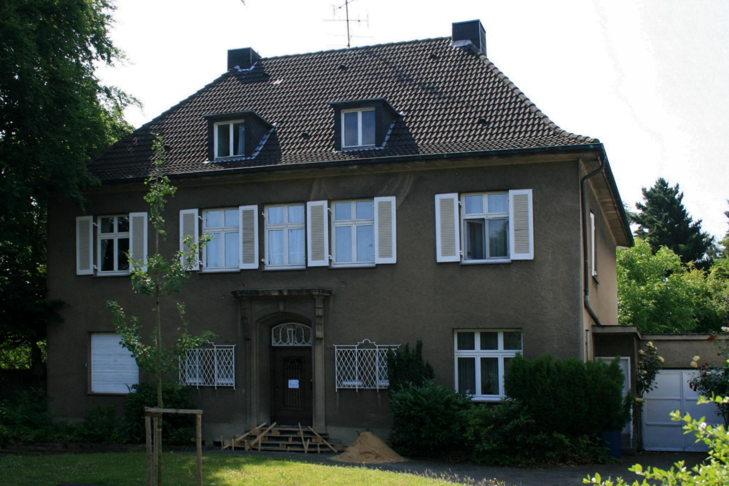 Cultural heritage monument No. St 013 in Mönchengladbach